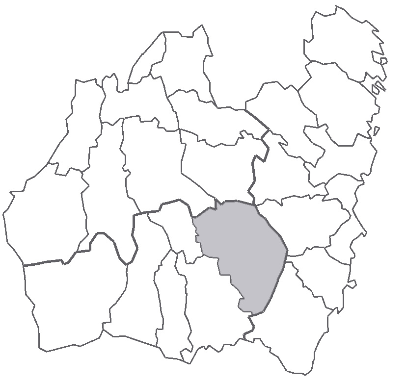 Map describing the location of Uddvidinge Hundred in the province of Småland, Sweden.